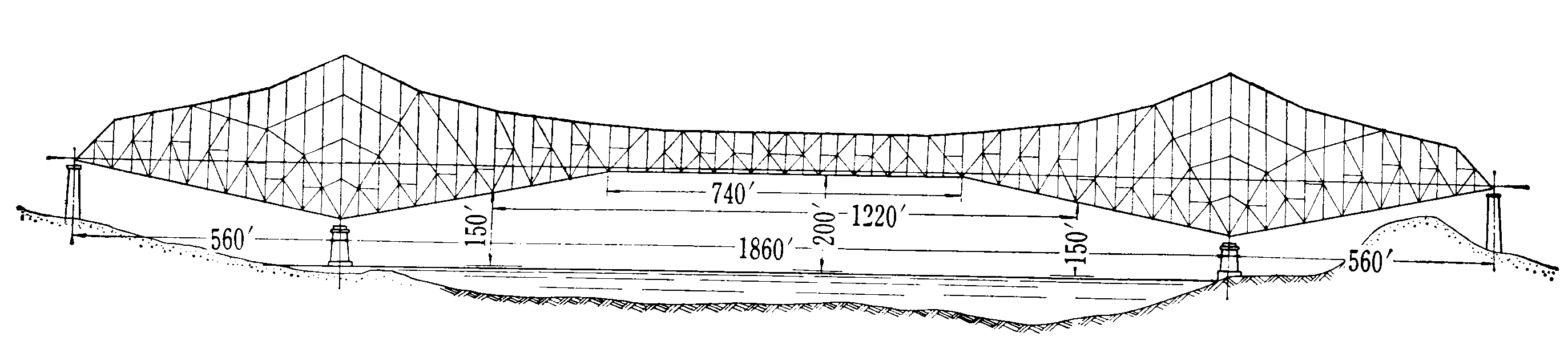 Draft proposal of Kammon railway bridge planned in 1916, which was actually not constructed